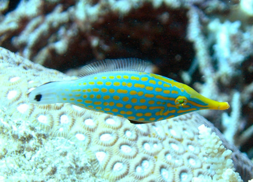 A Beaked Leatherjacket (Oxymonacanthus longirostris). Clam Gardens, Ribbon Reefs, Great Barrier Reef177081315